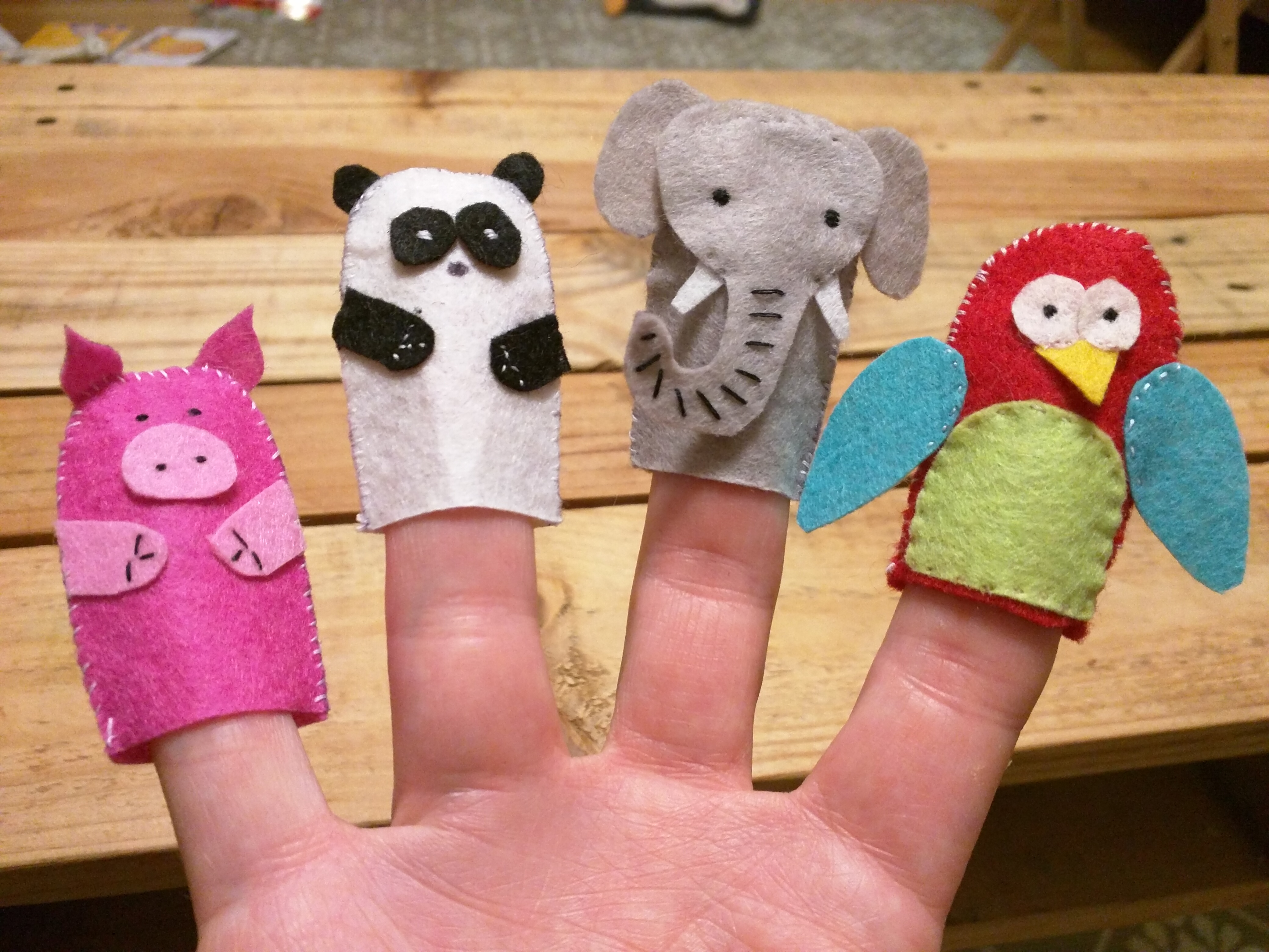 4 animal themed homemade finger puppets